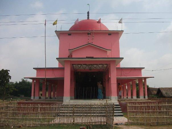 salempur